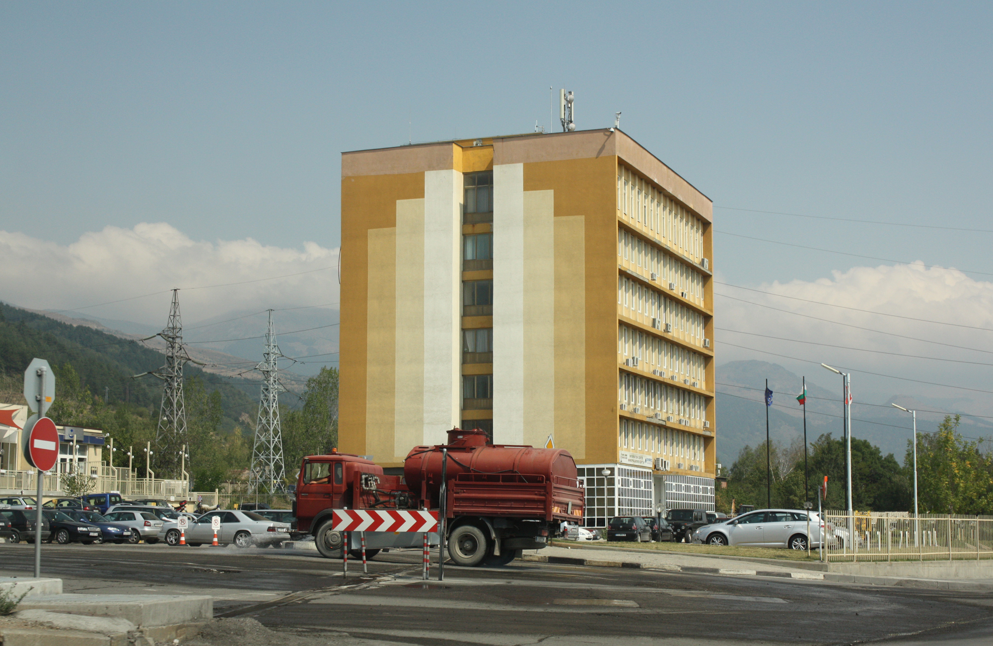 DPM Building, Chelopech, Bulgaria